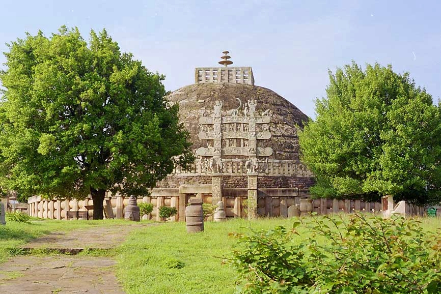 The "Great Stupa" at Sanchi (India) Source: Copyright © 2003, Gérald Anfossi (Utilisateur:Nataraja)